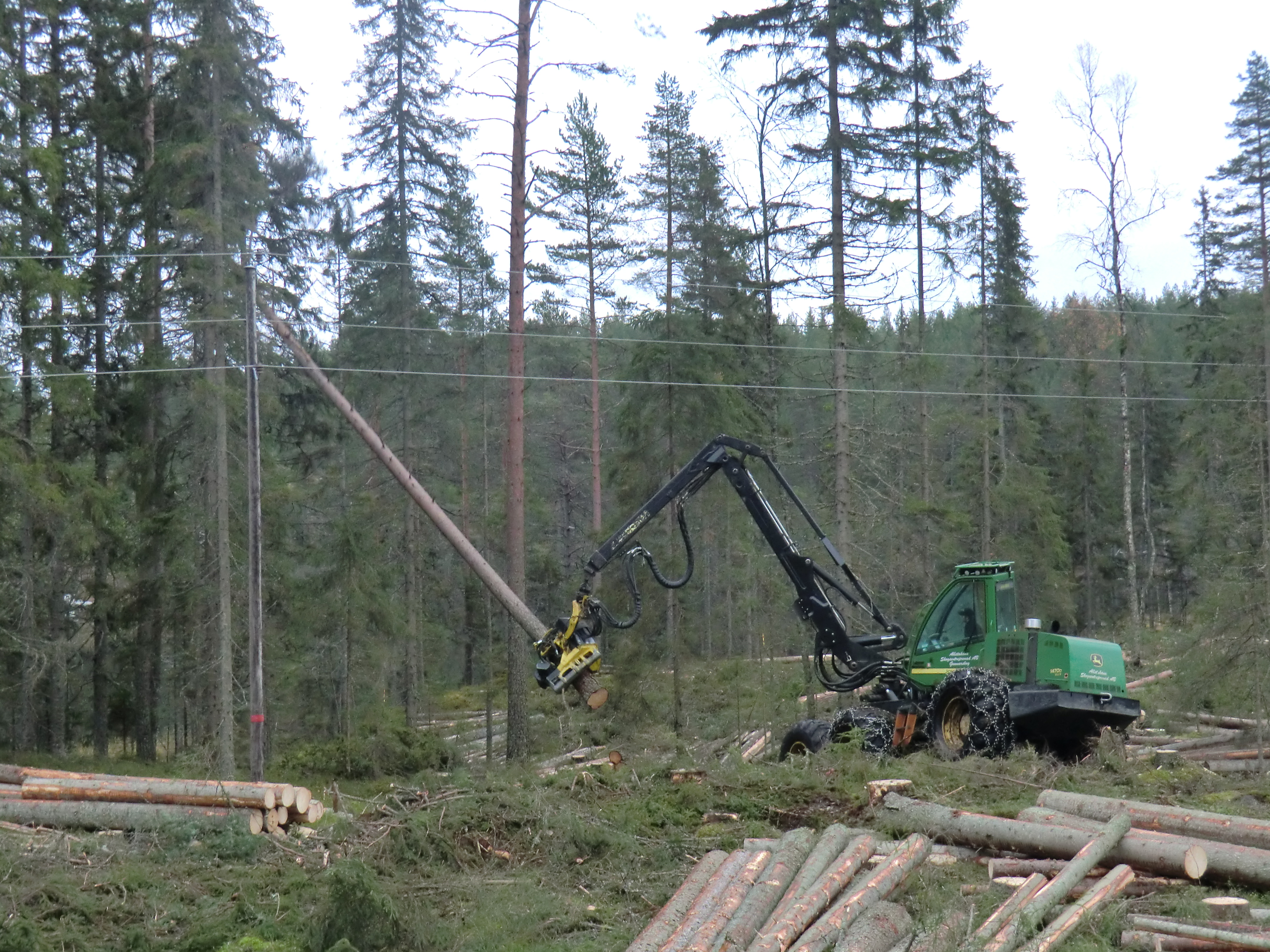 John Deere 1470 harvester in Finnsjön, Värmland, Sweden.